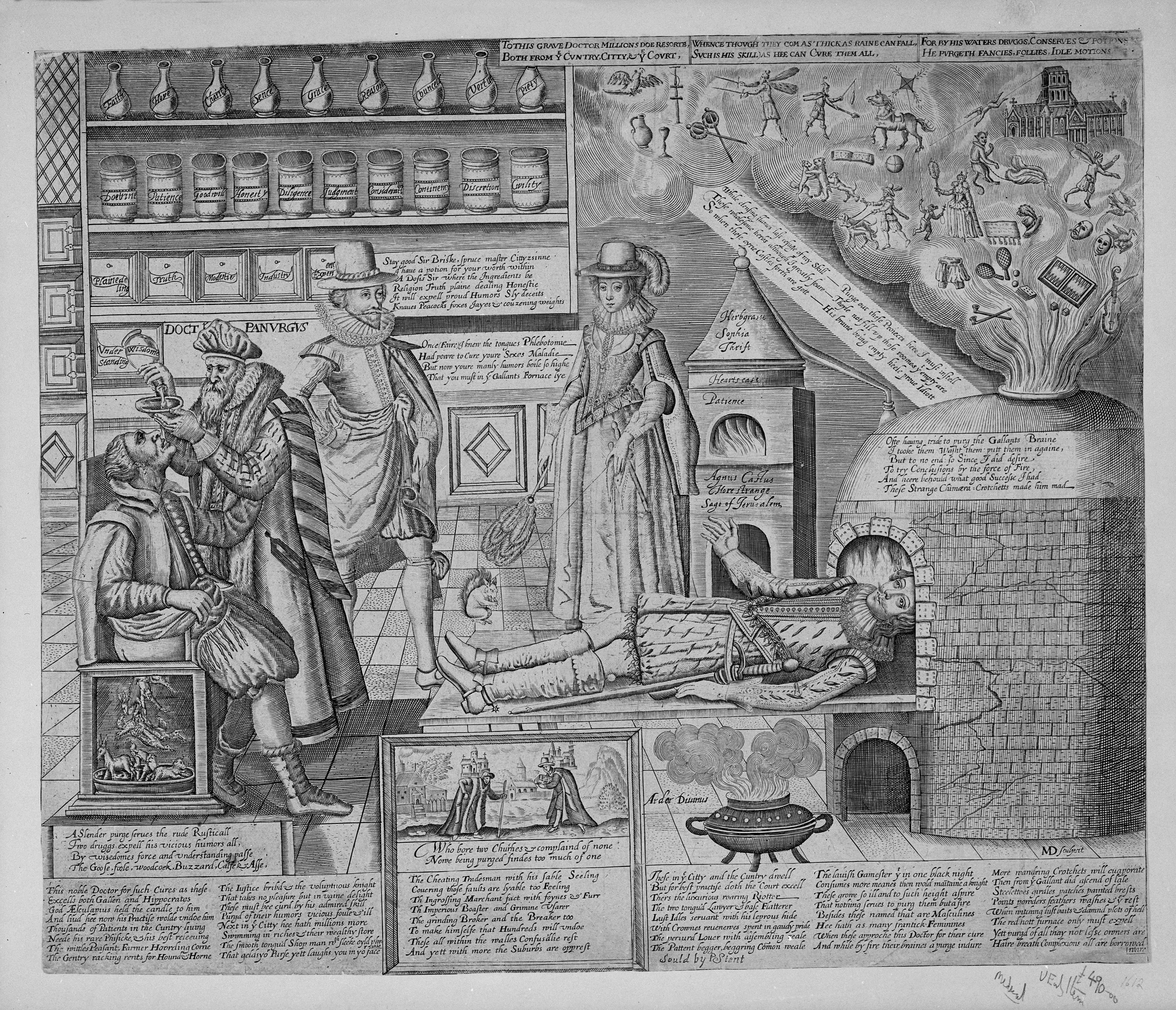 "Doctor Panurgus" curing the folly of his patients by purgative medicines and chemical cures. Line engraving by Martin Droeshout, ca. 1620. Iconographic Collections Keywords: Doctor Panurgus; Martin Droeshout